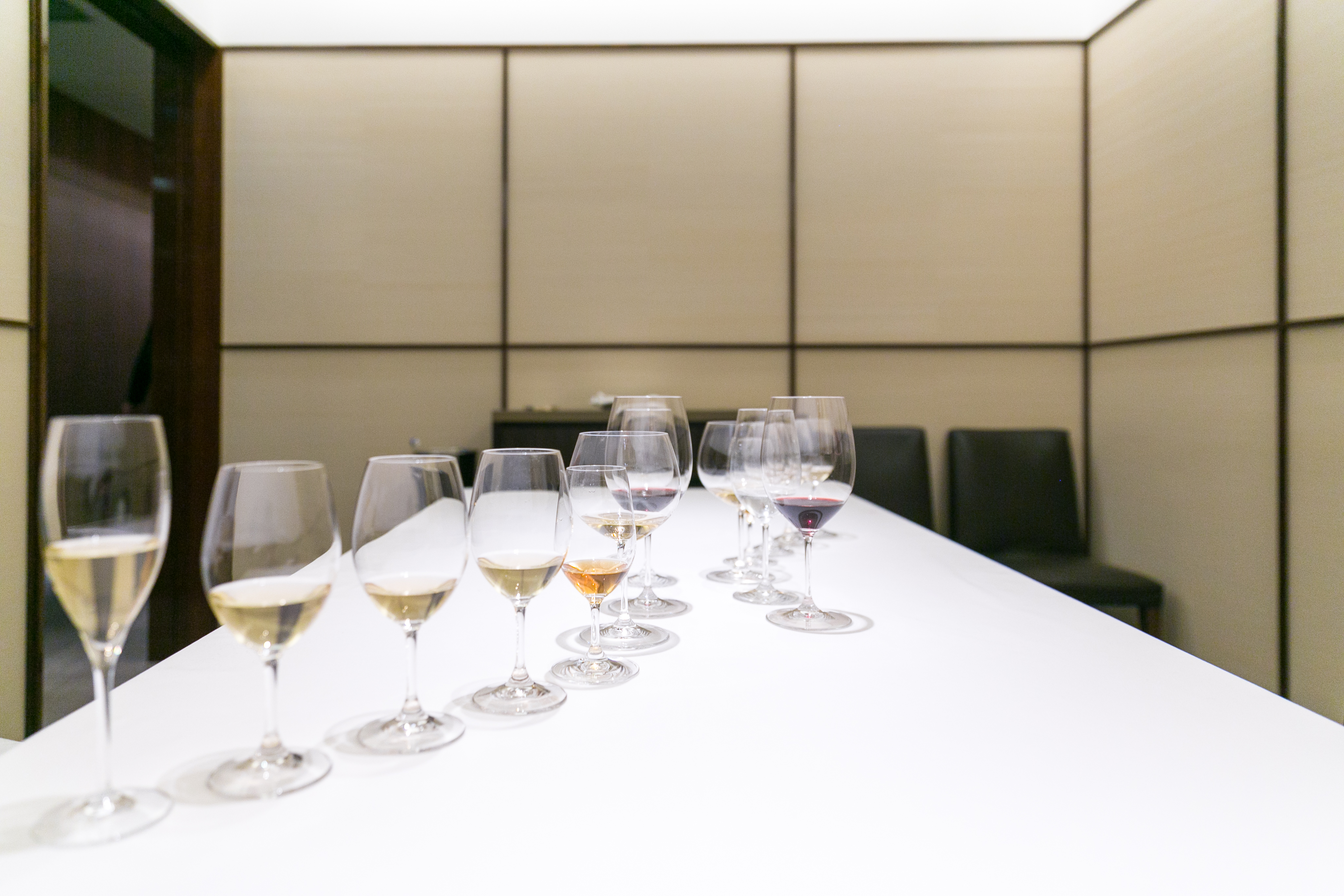 Quintessence, Tokyo, JPN Date Visited: December 23, 2014 City Foodsters Facebook | Twitter | Instagram